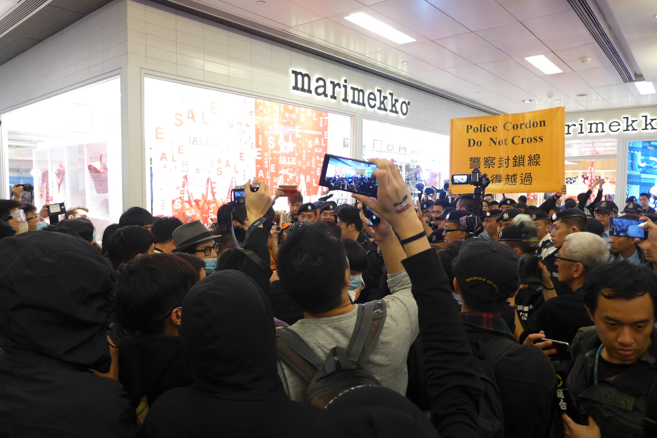 New Town Plaza L4 shop469 police force show yellow flag